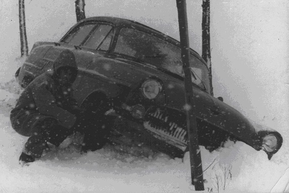 Driver Tony Harrison and BRIXMIS Opel Kapitän stuck in the snow somewhere in East Germany, winter 1957/58.